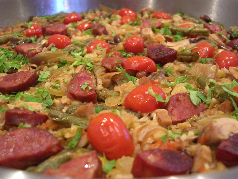 I made a paella with some chorizo sausages and leftover roast chicken, and some green beans. ok, so it's not an authentic paella, but it was nice and simple, and didn't taste too bad either! I did make a sofrito base before adding the rice and other ingredients. I think i should have used more of it for a richer tomato flavour.